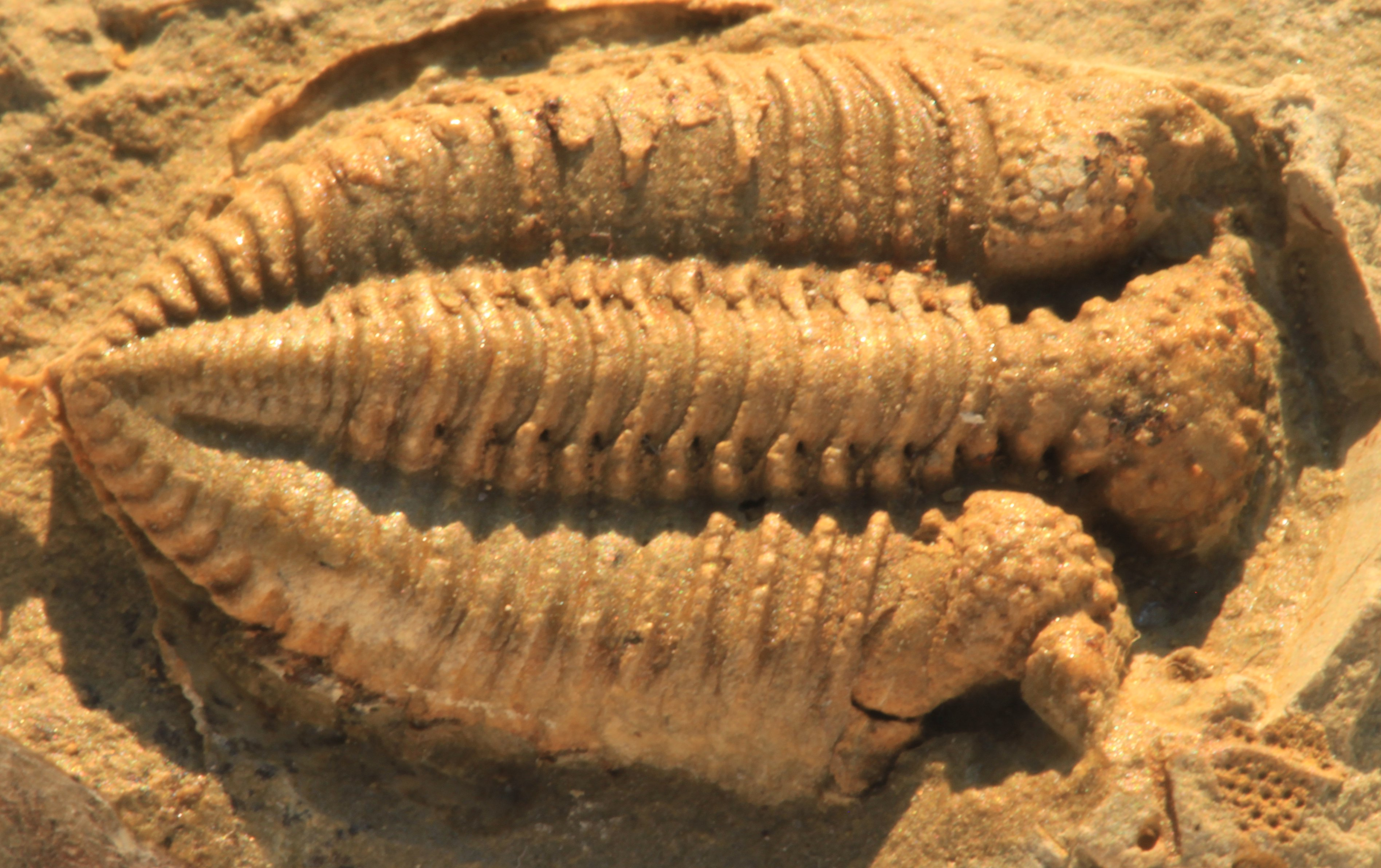 An Encrinuroides enshensis trilobite, Order Phacopida, Family Ecrinuridae, 25mm measured along the axis, collected from the Trilobite beds, Sichuan?, China, early Silurian (Llandovery)